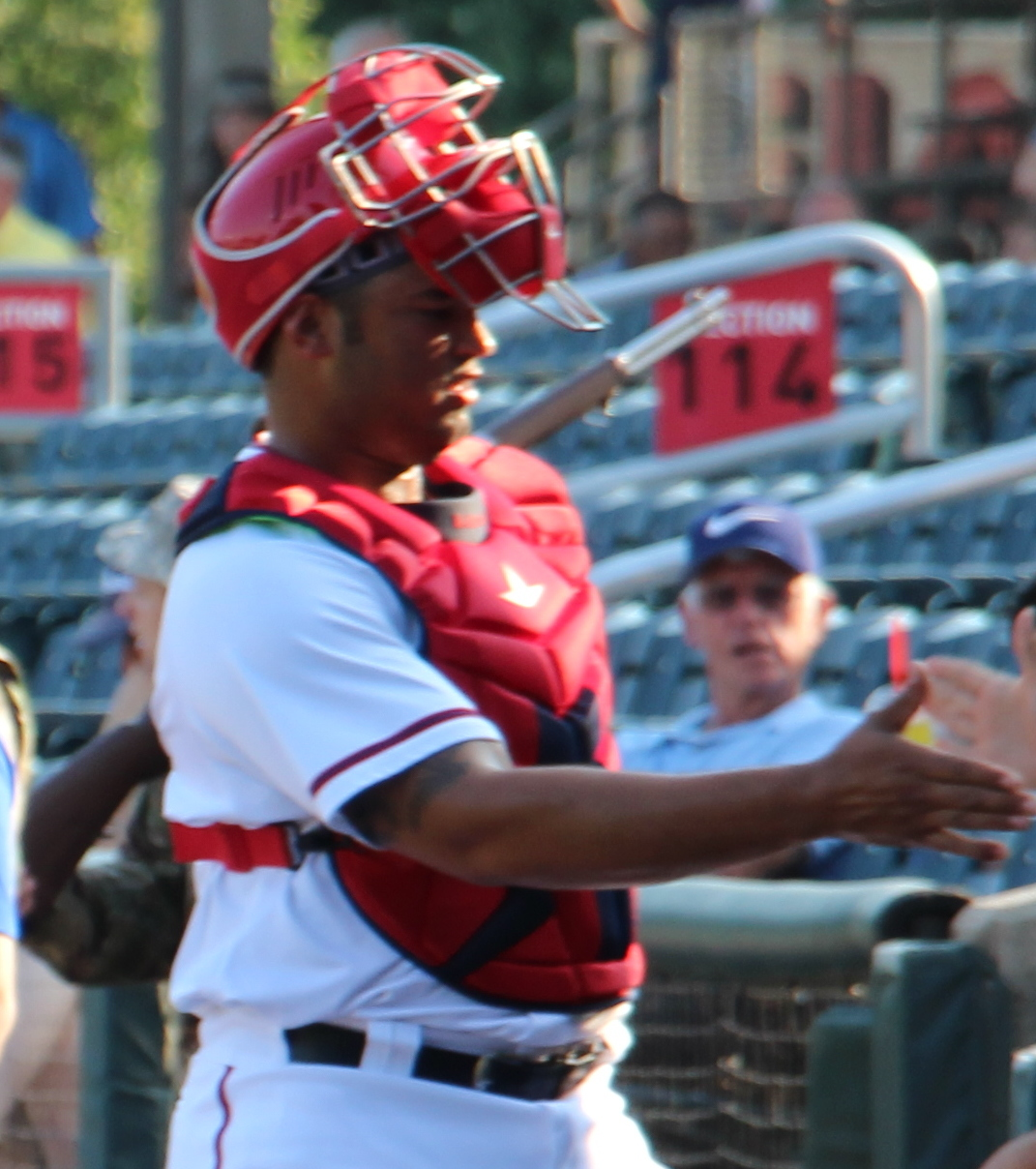 In celebration of our 100th year anniversary, patrons were invited to join us at the Harrisburg Senators Arena for Military Night on Jul. 16 at 6:30 p.m. to watch our very own assigned military throw not only the first pitch, but four more courtesy pitches at the Senators Baseball game against Akron Rubber Ducks. The Senators ended up winning the game with a grand slam!